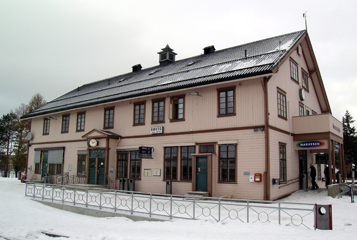 Røros railway station, Rørosbanen. Architect: Peter A. Blix.